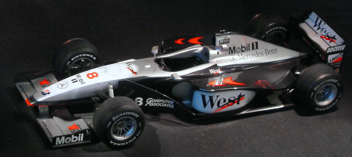 Häkkinen's McLaren MP4/13 at Stuttgart Mercedes museum